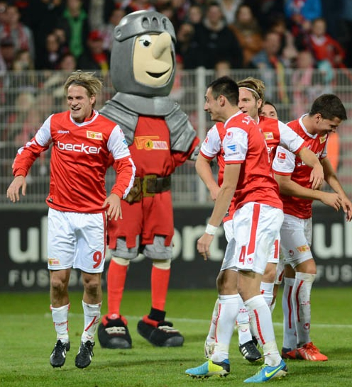 Ritter Keule (center), mascot of football club 1. FC Union Berlin